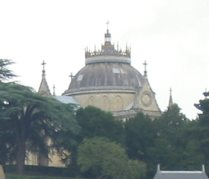 St. Louis chapel at Dreux